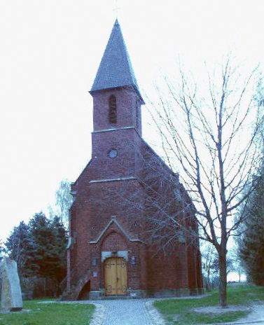 Wiggeringhausen